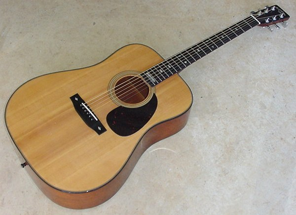 Full view of Sigma D-10